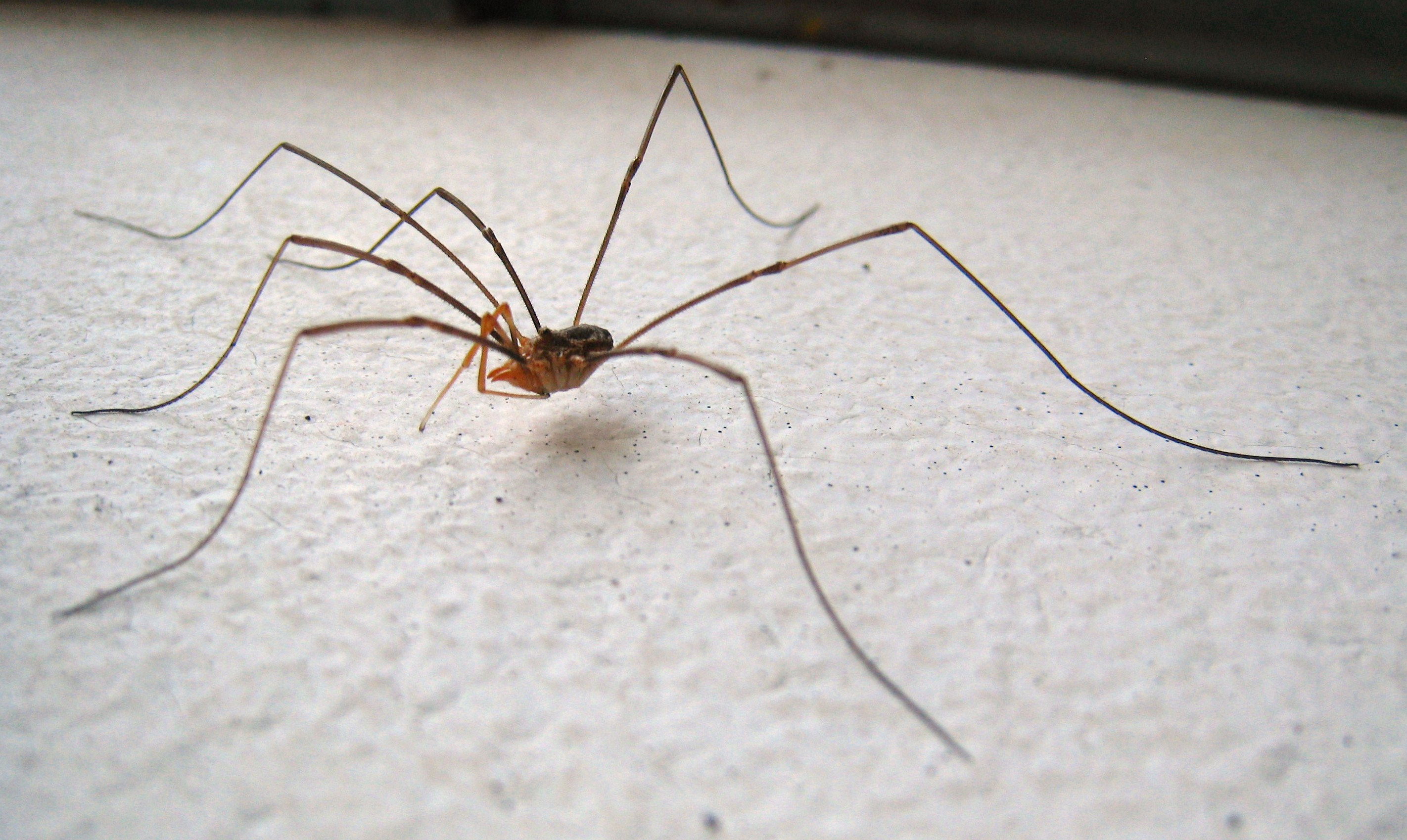 Harvestman, probably Phalangium opilio, photographed in Seattle WA.